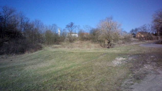 The Village of Czarnowo 2015